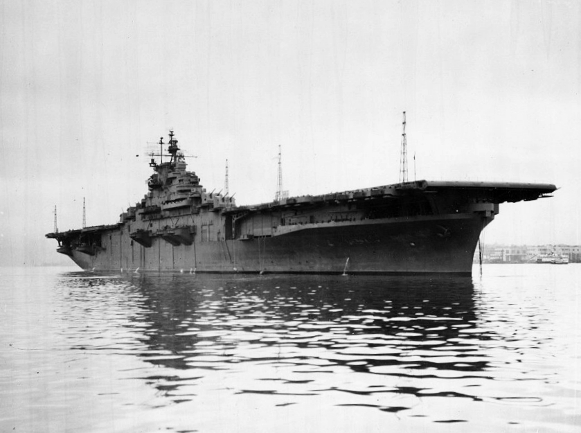 The U.S. Navy aircraft carrier USS Lexington (CV-16) off the Puget Sound Navy Yard, Washington (USA), on 16 February 1944. Lexington had been under repair for torpedo damage and addition of more quad 40mm mounts to upgrade her AA capability.